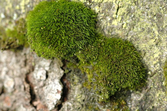 Picture taken in Commanster, Belgian High Ardennes . Species: Dicranella heteromalla